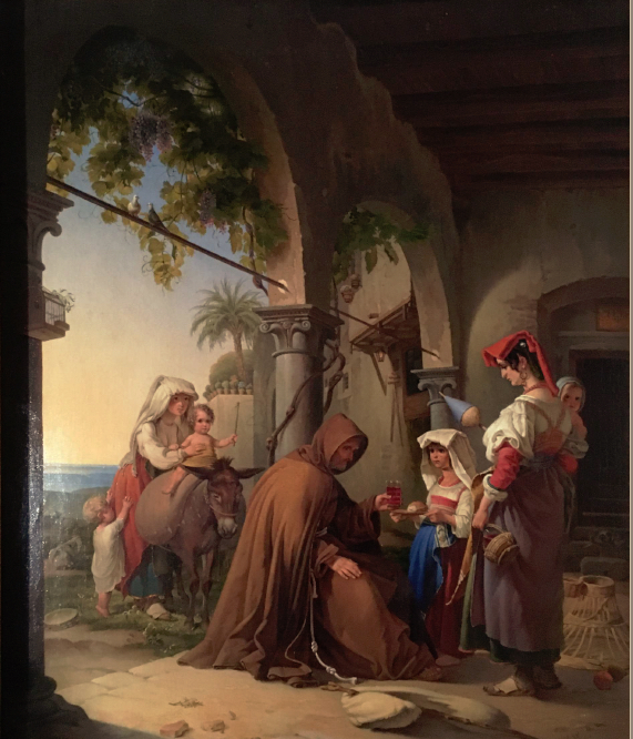 Photography of painting of Th. L. Weller. Titel: "Der Bettelmönch von einer ländlichen Familie bewirthet." Privatbesitz